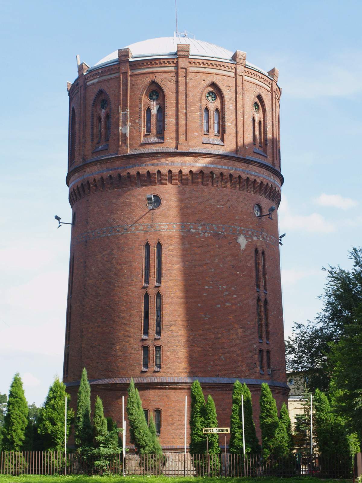 Water tower in Kołobrzeg